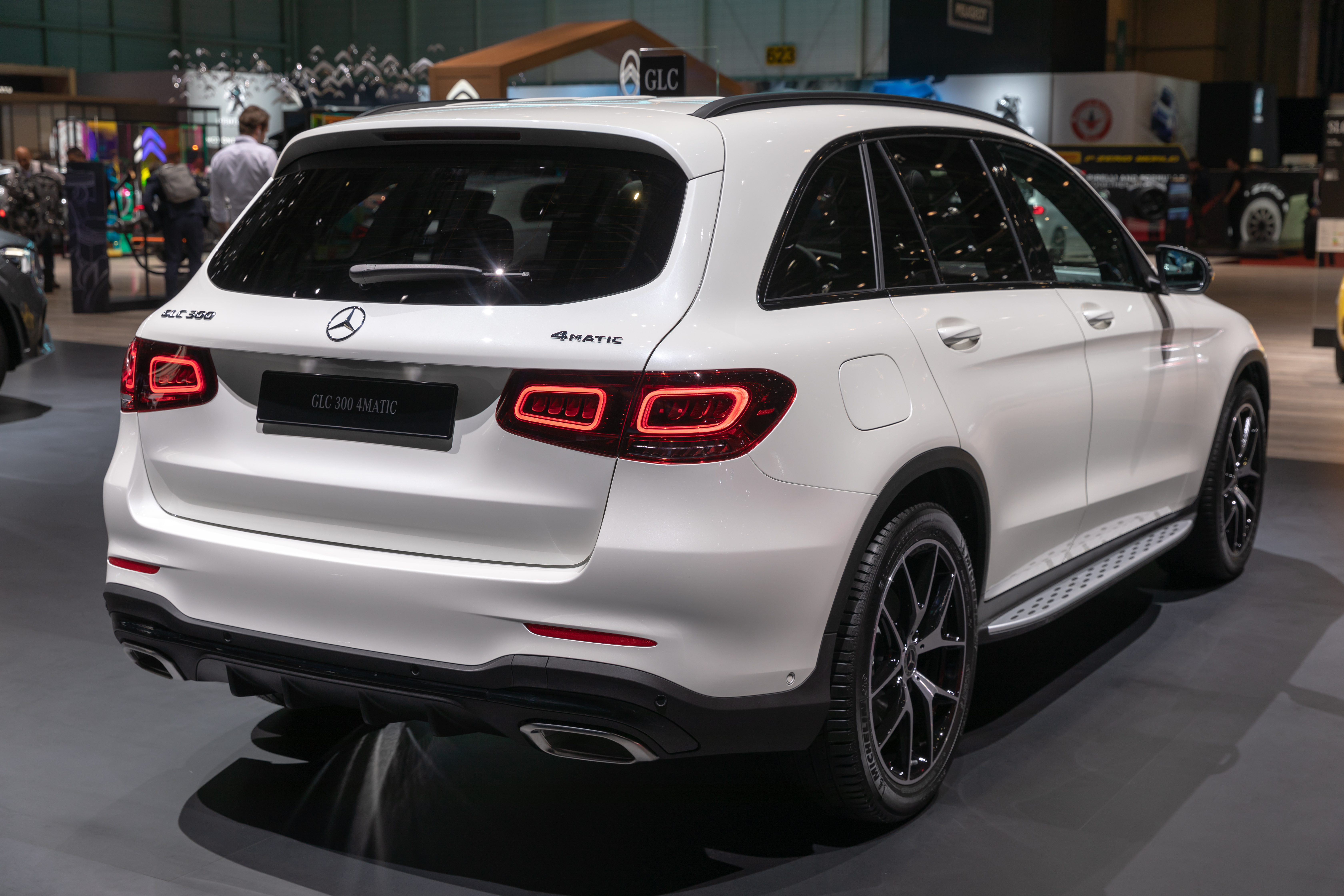 Geneva International Motor Show 2019, Le Grand-Saconnex